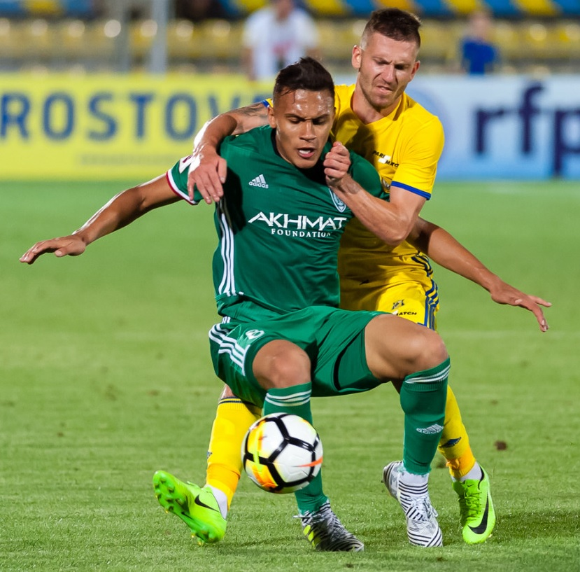 Léo Jabá with FC Akhmat Grozny in a game against FC Rostov.